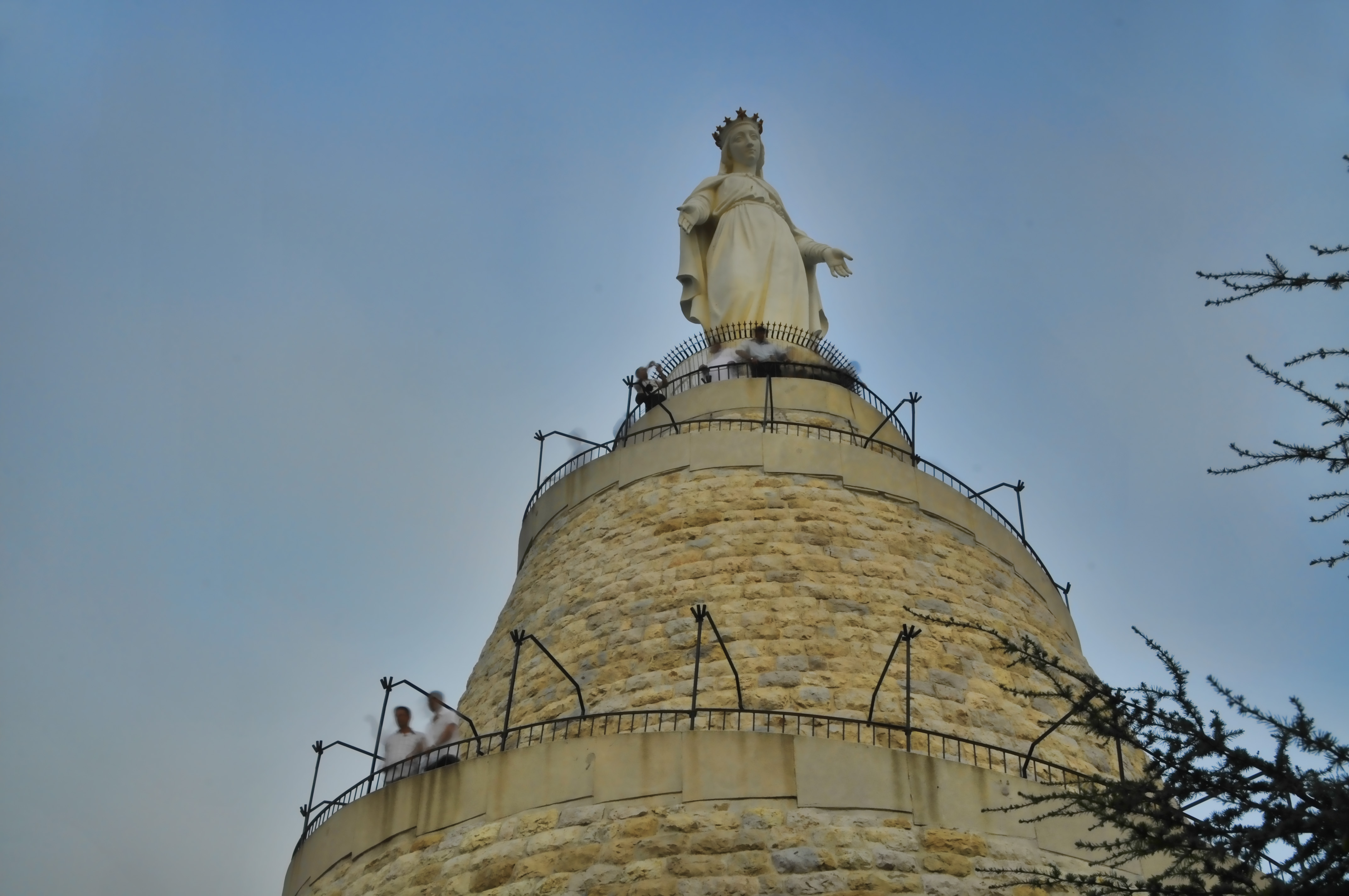 Harissa is one of the sacred landmark in Lebanon. it is a statue on top of the mountain range overlooking Beirut and Jounieh.